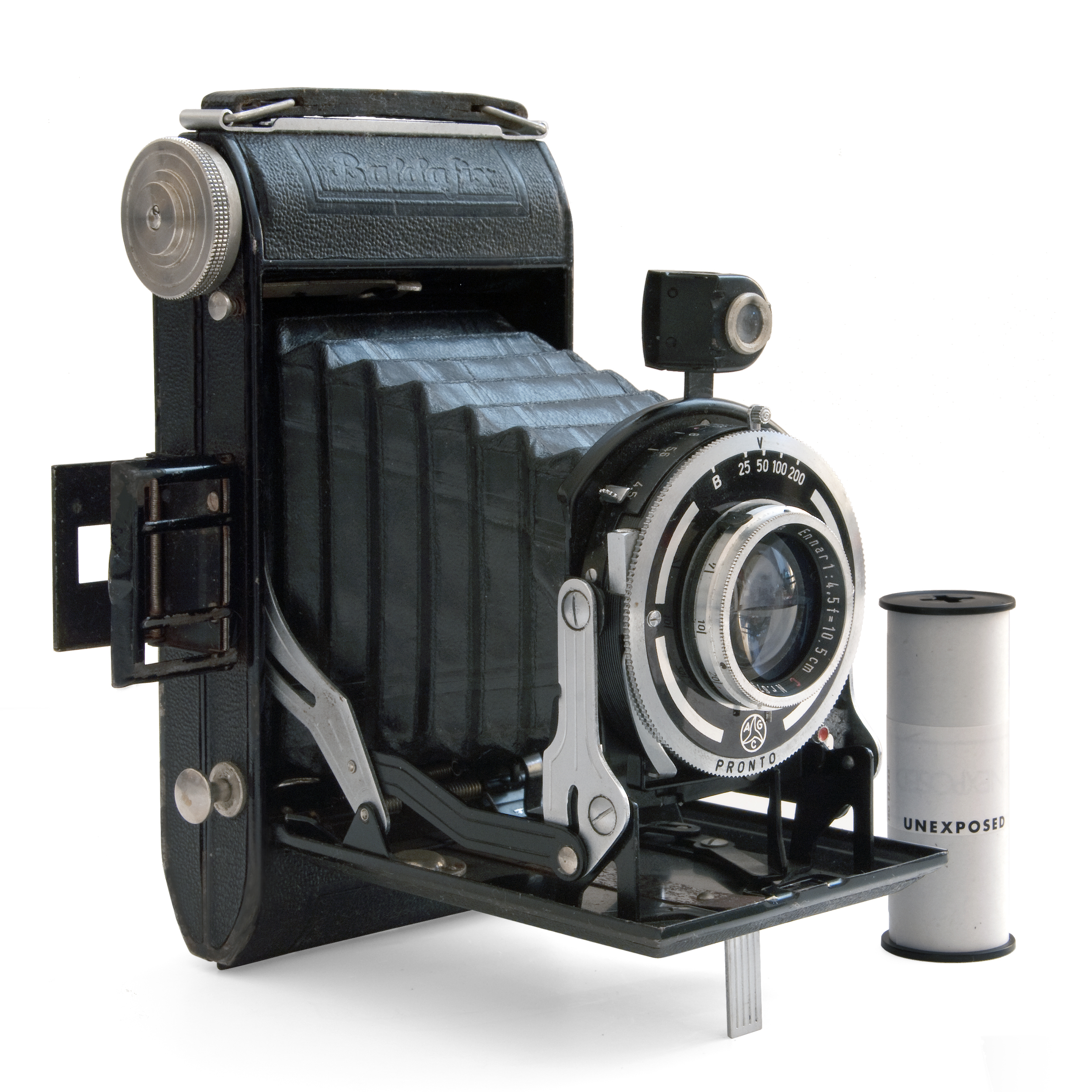 A Baldafix folding camera by Balda, with a Pronto shutter mechanism. A roll of 120 (medium format) film included for scale.